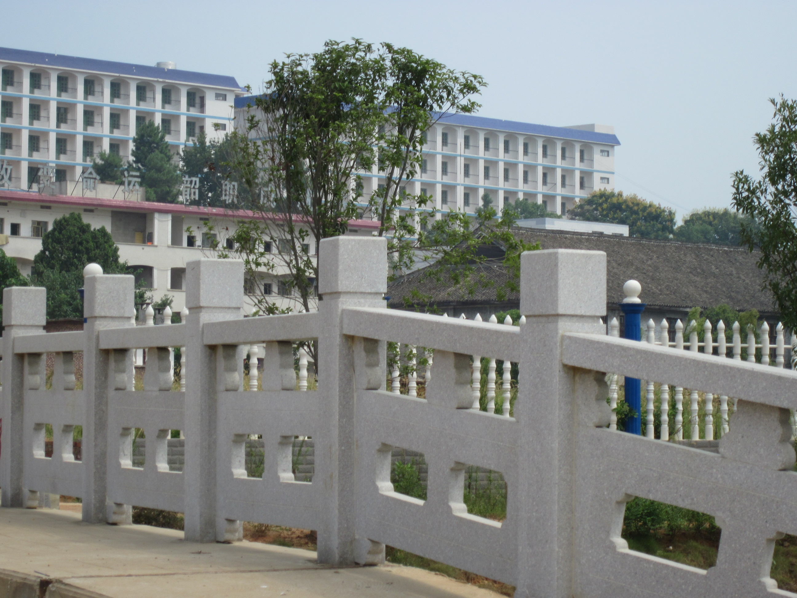 Shaoshan Vocational Technical Secondary School